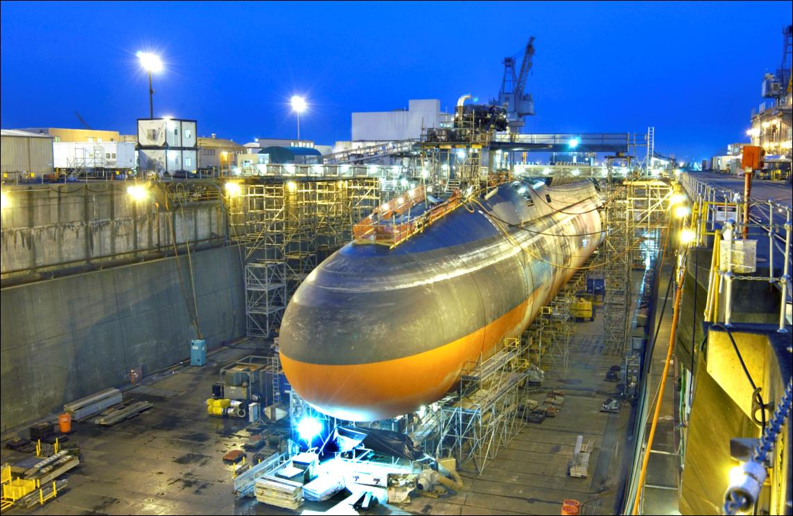 USS Ohio SSGN Conversion. "040315-N-0000H-001 Bremerton, Wash. (March 15, 2004) - Night falls at Puget Sound Naval Shipyard and Intermediate Maintenance Facility, Bremerton, Wash., as work continues on the strategic missile submarine USS Ohio (SSGN-726). The USS Ohio is one of four Trident Submarines undergoing conversion to a new class of guided missile submarines. The SSGN conversion program takes Ohio-class ballistic missile submarines through an extensive overhaul that will improve their capability to support and launch up to 154 Tomahawk missiles. They will also provide the capability to carry other payloads, such as unmanned underwater vehicles (UUVs), unmanned aerial vehicles (UAVs) and Special Forces equipment. This new platform will also have the capability to carry and support more than 66 Navy SEALs (SEa, Air and Land) and insert them clandestinely into potential conflict areas. U.S. Navy photo by Wendy Hallmark (RELEASED)"